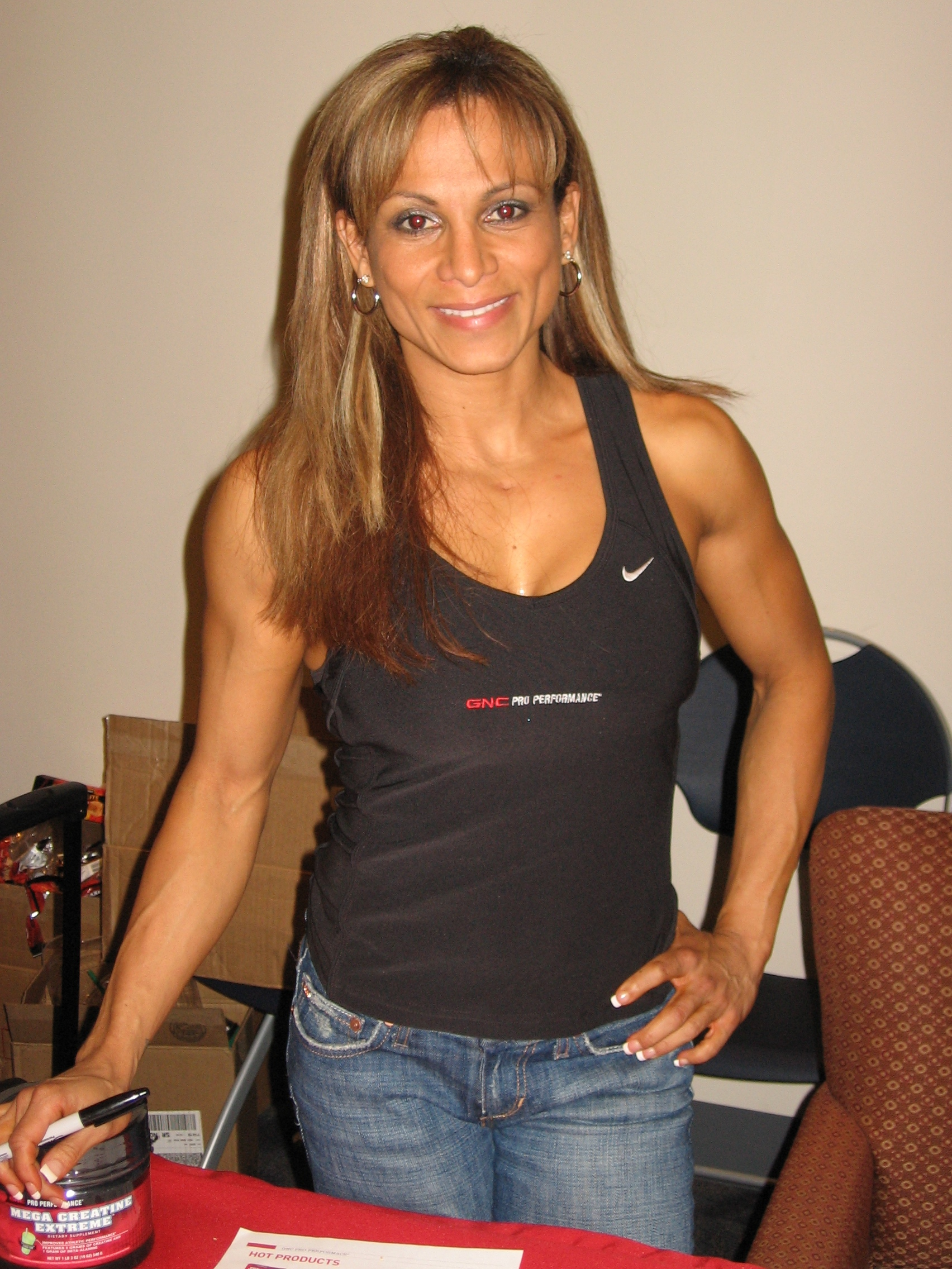 Adela Garcia at the 2007 NPC Texas State Bodybuilding, Figure, Fitness Championships in Stafford, Texas